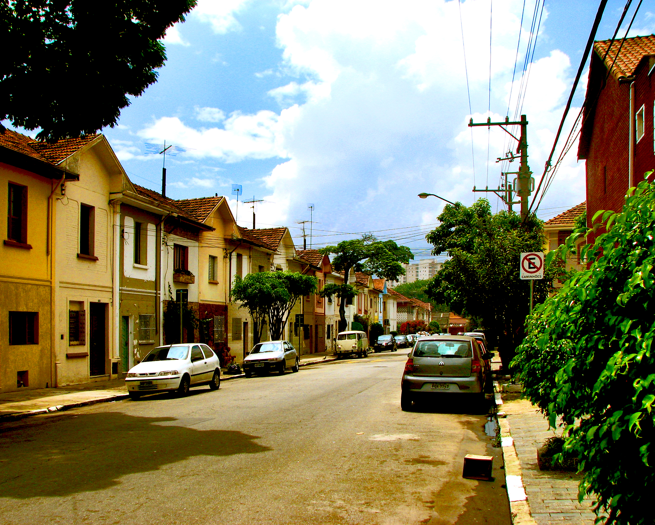 Proletarian one-storey houses in Mooca district, São Paulo, Brazil.